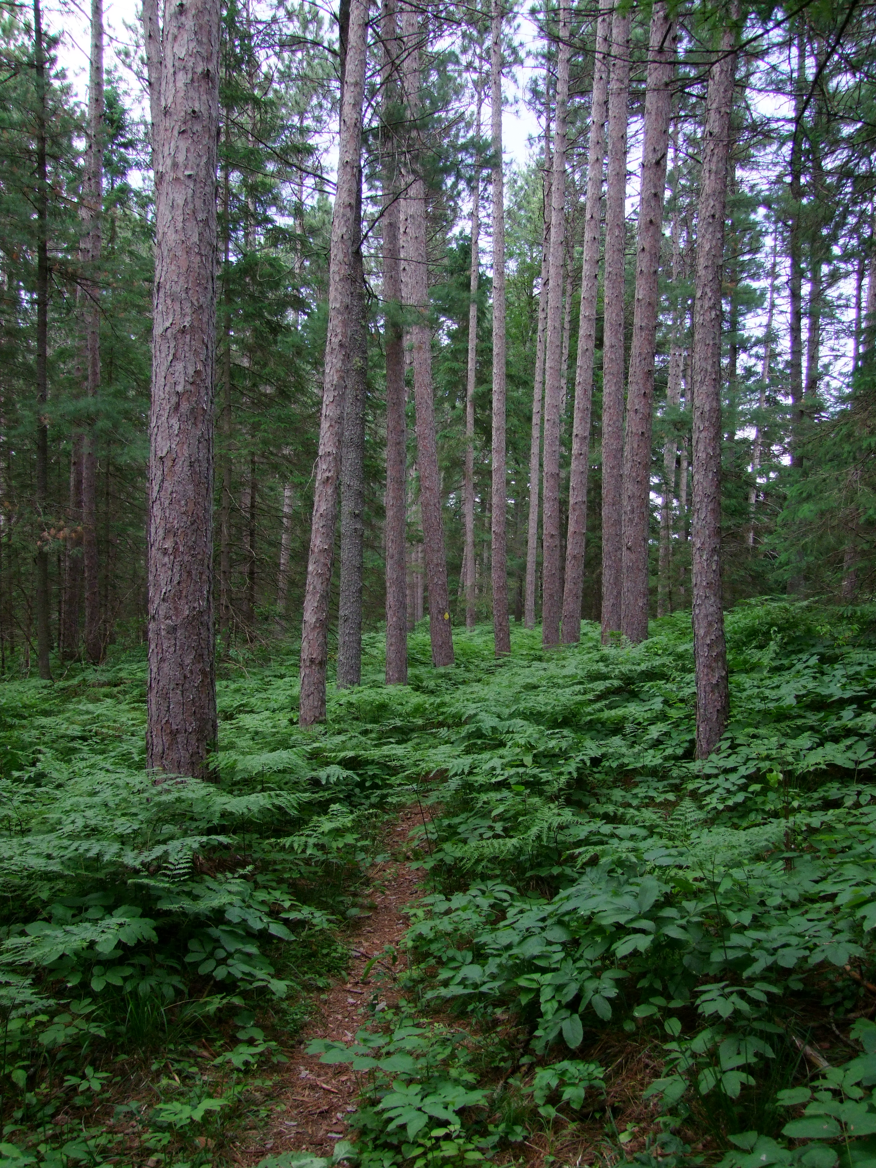 A Pinus resinosa forest habitat in Petroglyphs Provincial Park.